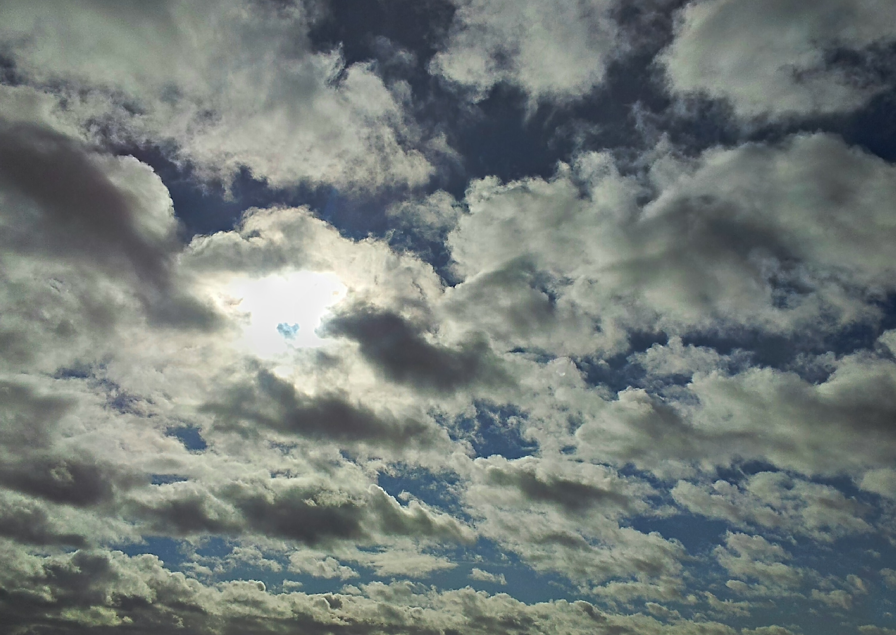 Clouds and blue sky.